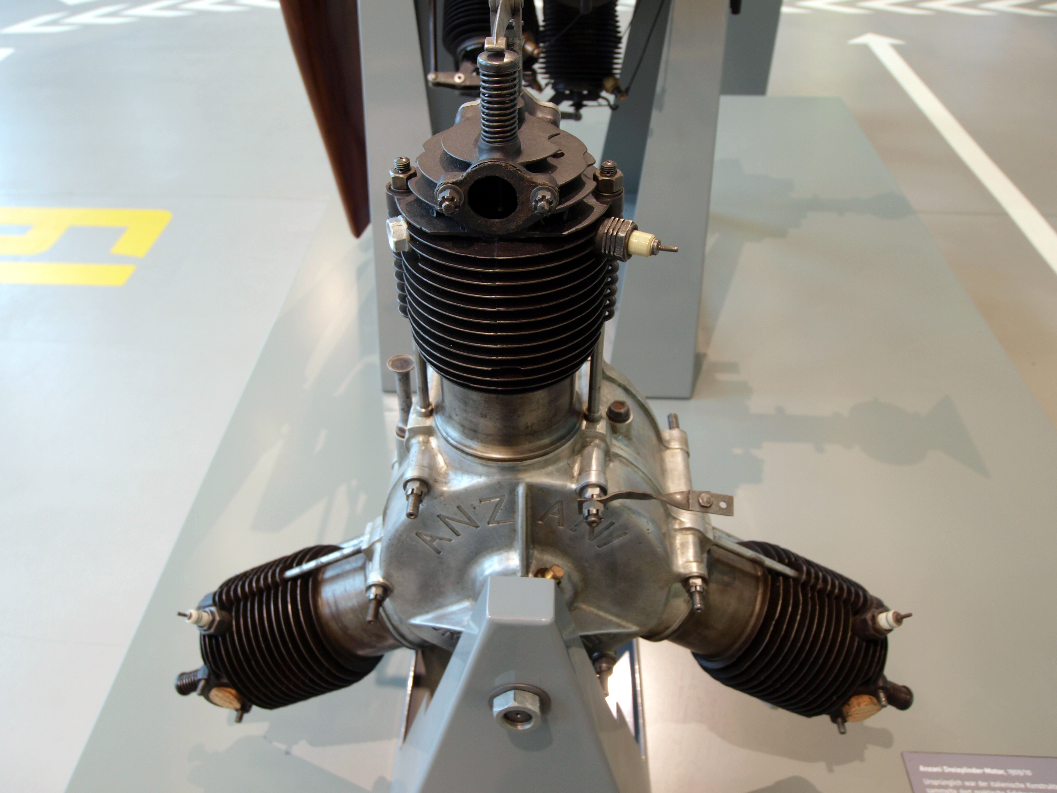 Photo taken without a tripod (was not permitted!) 1909 Anzani three cylinder aircraft engine